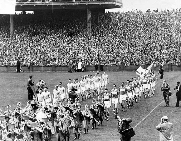 Derry and Dublin Senior Footballers march out behind the Artane Boys' Band at Croke Park for the All-Ireland Final on 28 September 1958. According to the Irish Times of Monday, 29 September 1958, the official attendance at Croke Park was 73,731. It was "estimated that a further 25,000 people failed to gain admission." Dublin won. The final score was Dublin 2:12 to Derry's 1:9 Date: 28 September 1958 NLI Ref.: INDR1701A